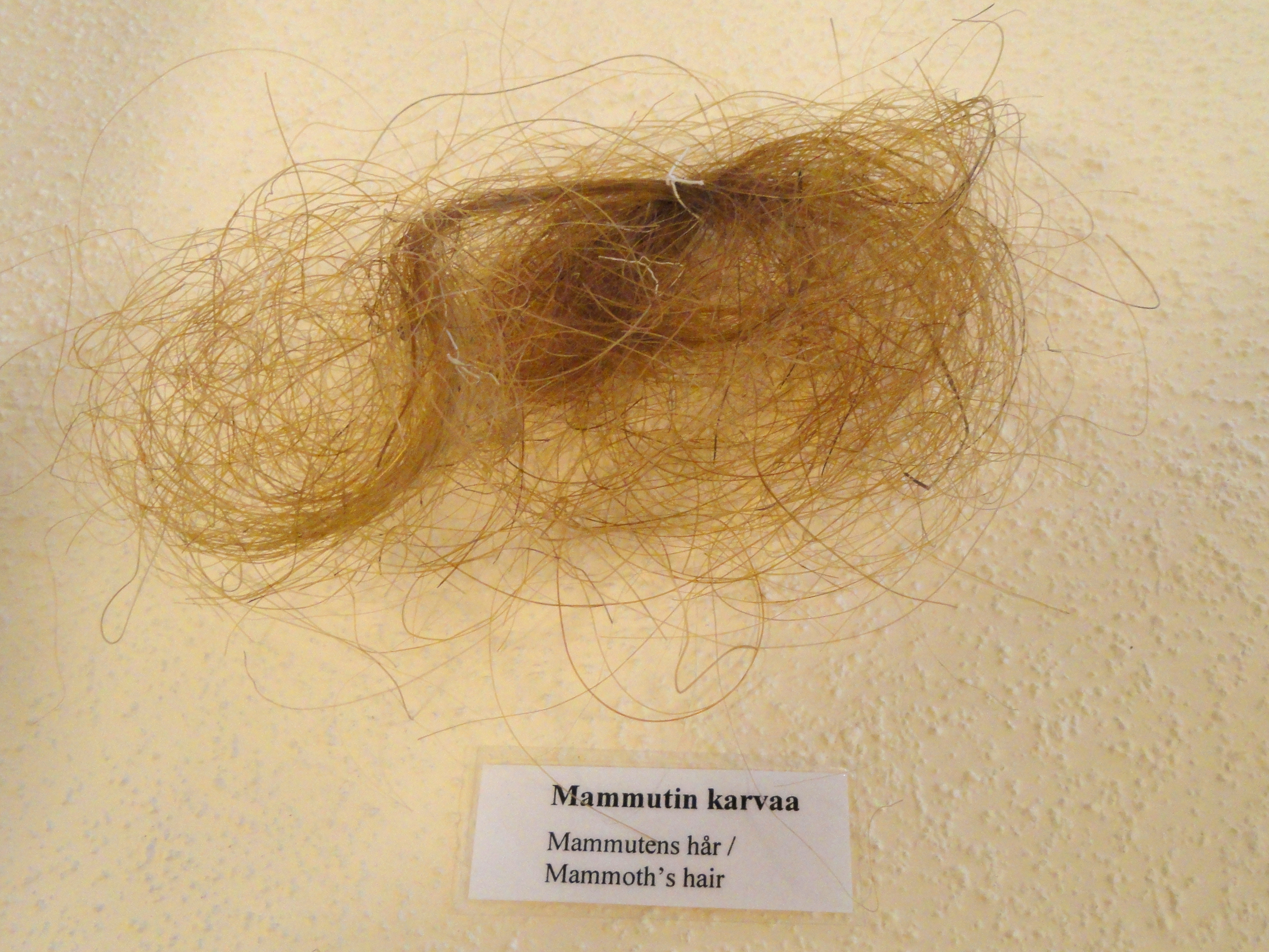 Exhibit in the Arppeanum, Helsinki, Finland.